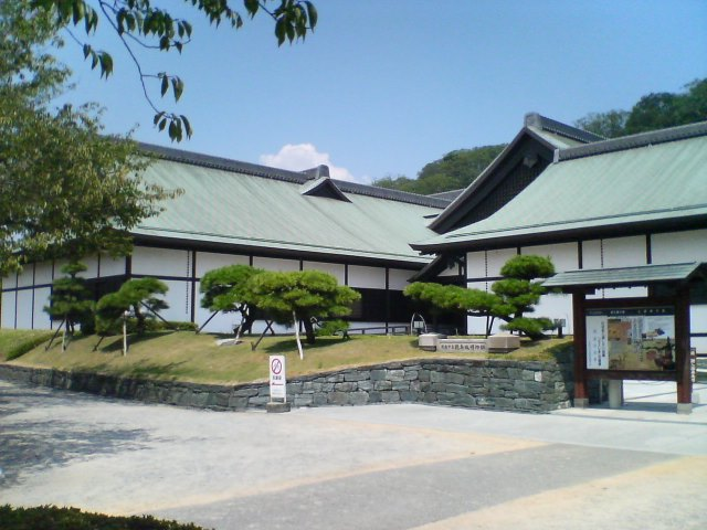 Main entrance of Tokushuma Castle Museum (徳島市立徳島城博物館)